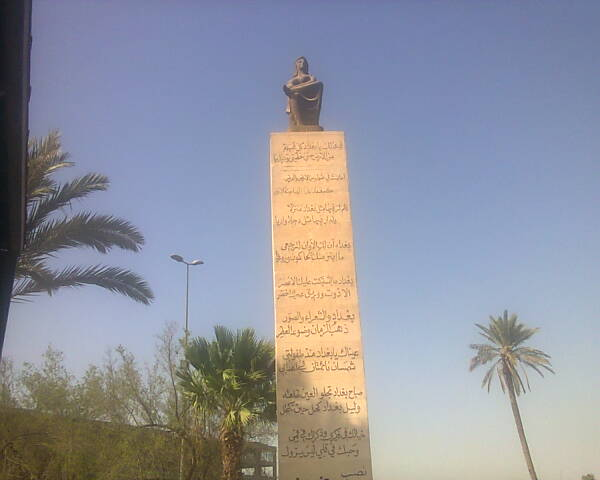 Baghdad's statute